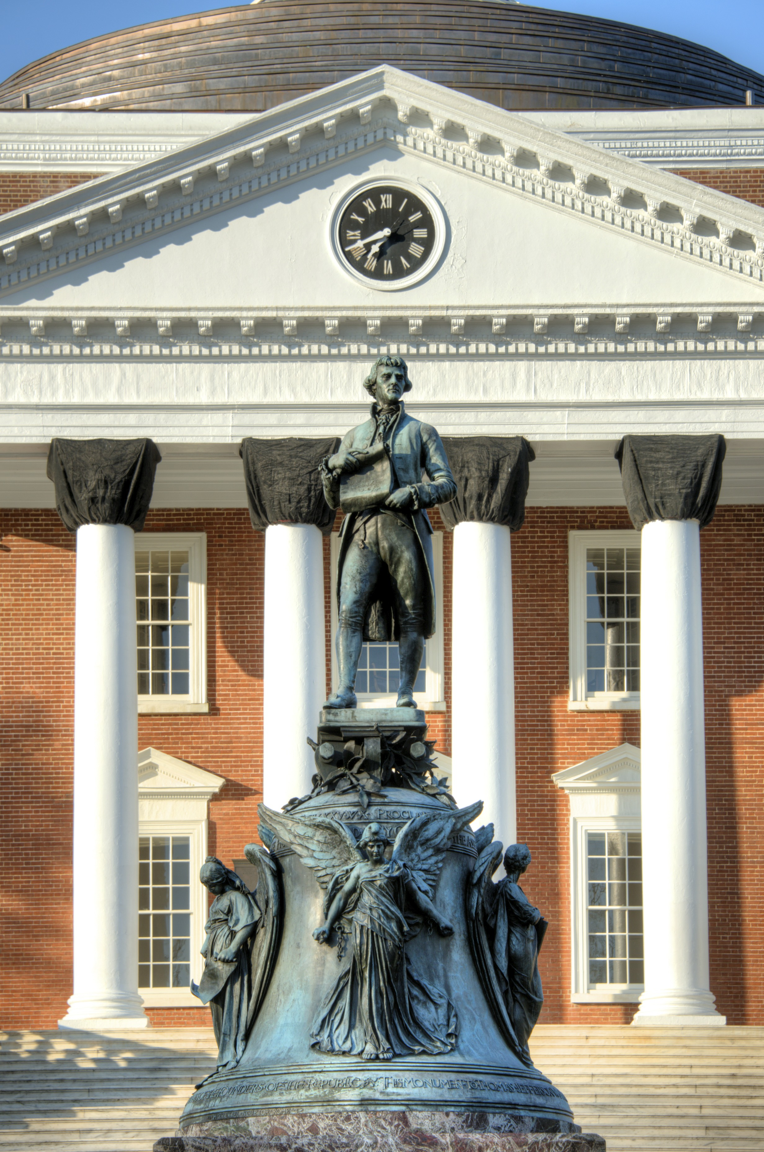 A closer view of the Jefferson statue in front of the Rotunda.